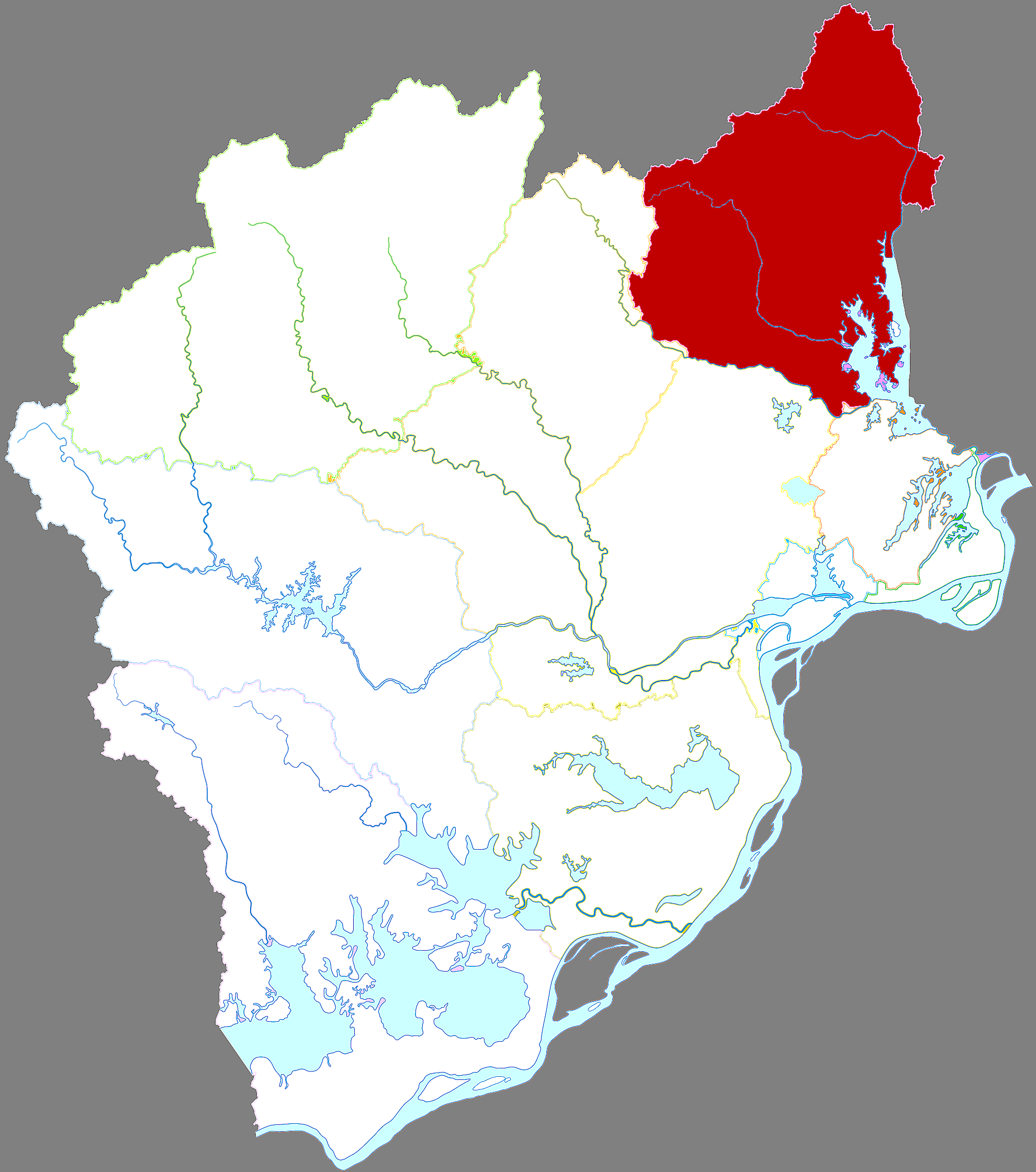 Location of Tongcheng county-level city in Anqing city, China